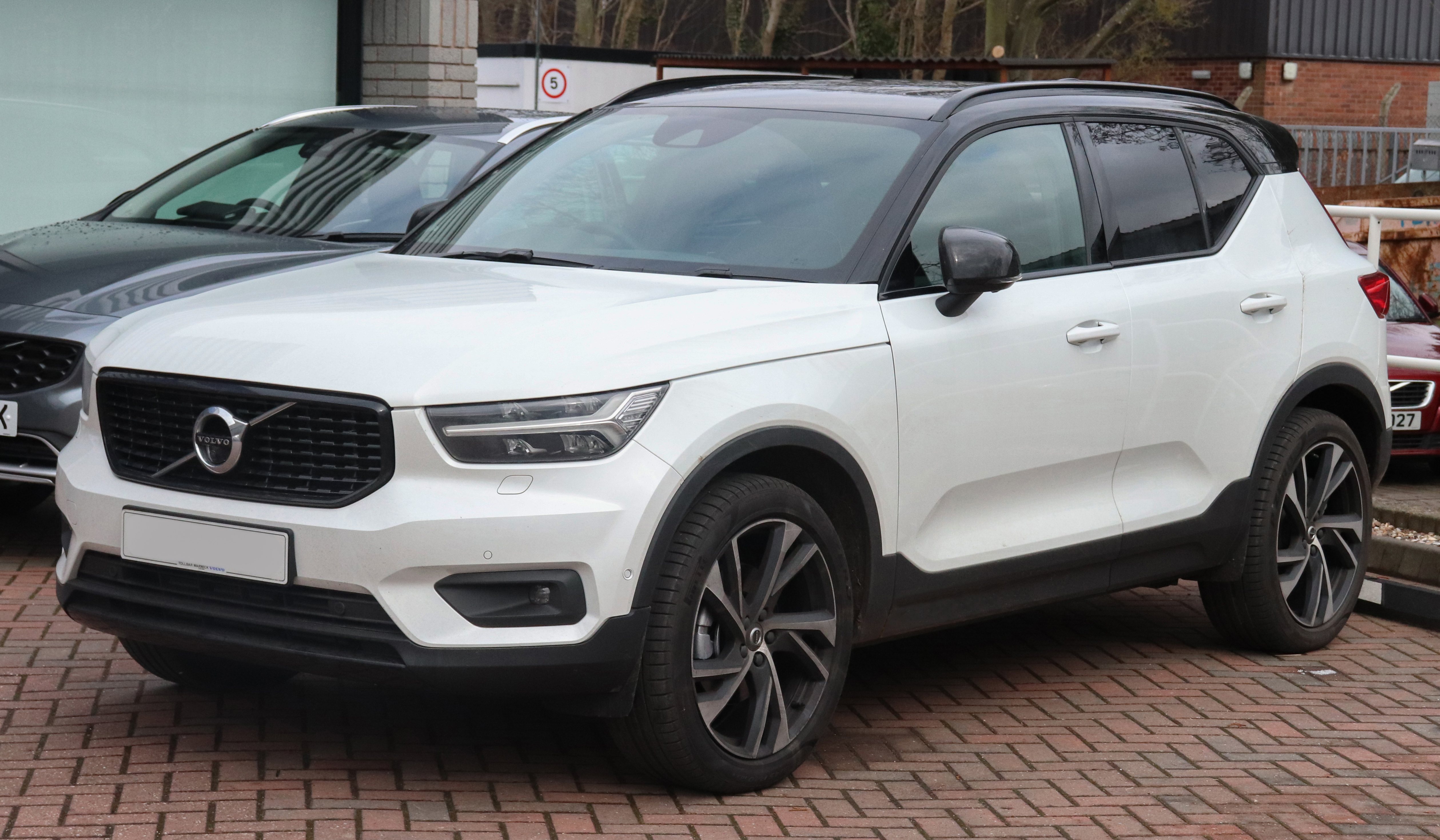 2018 Volvo XC40 First Edition T5 AWD Automatic 2.0 Front Taken at Sytner Volvo Warwick, Leamington Spa